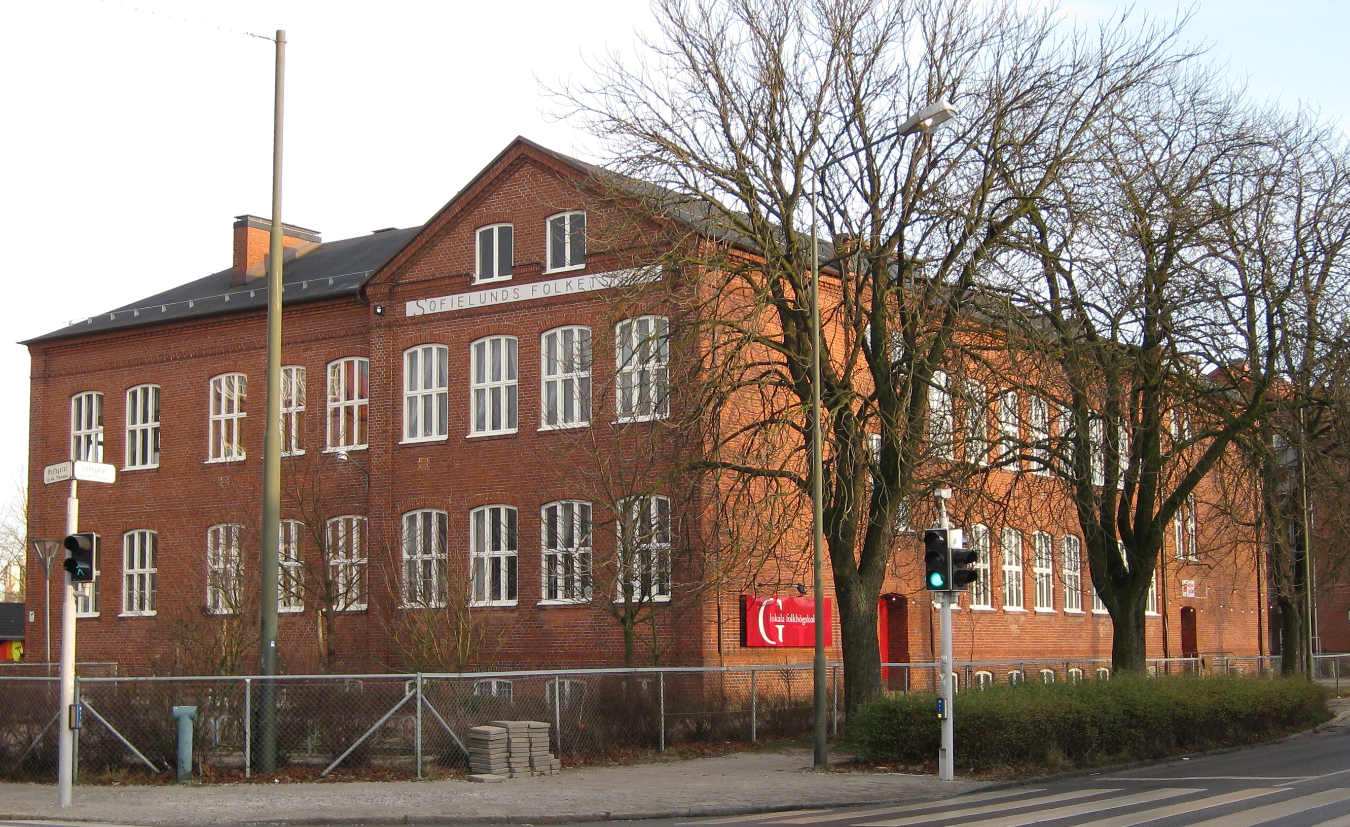 The Folkets hus building in Sofielund, Malmö, Sweden